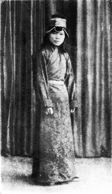 Liu Manqing (1906－1941)